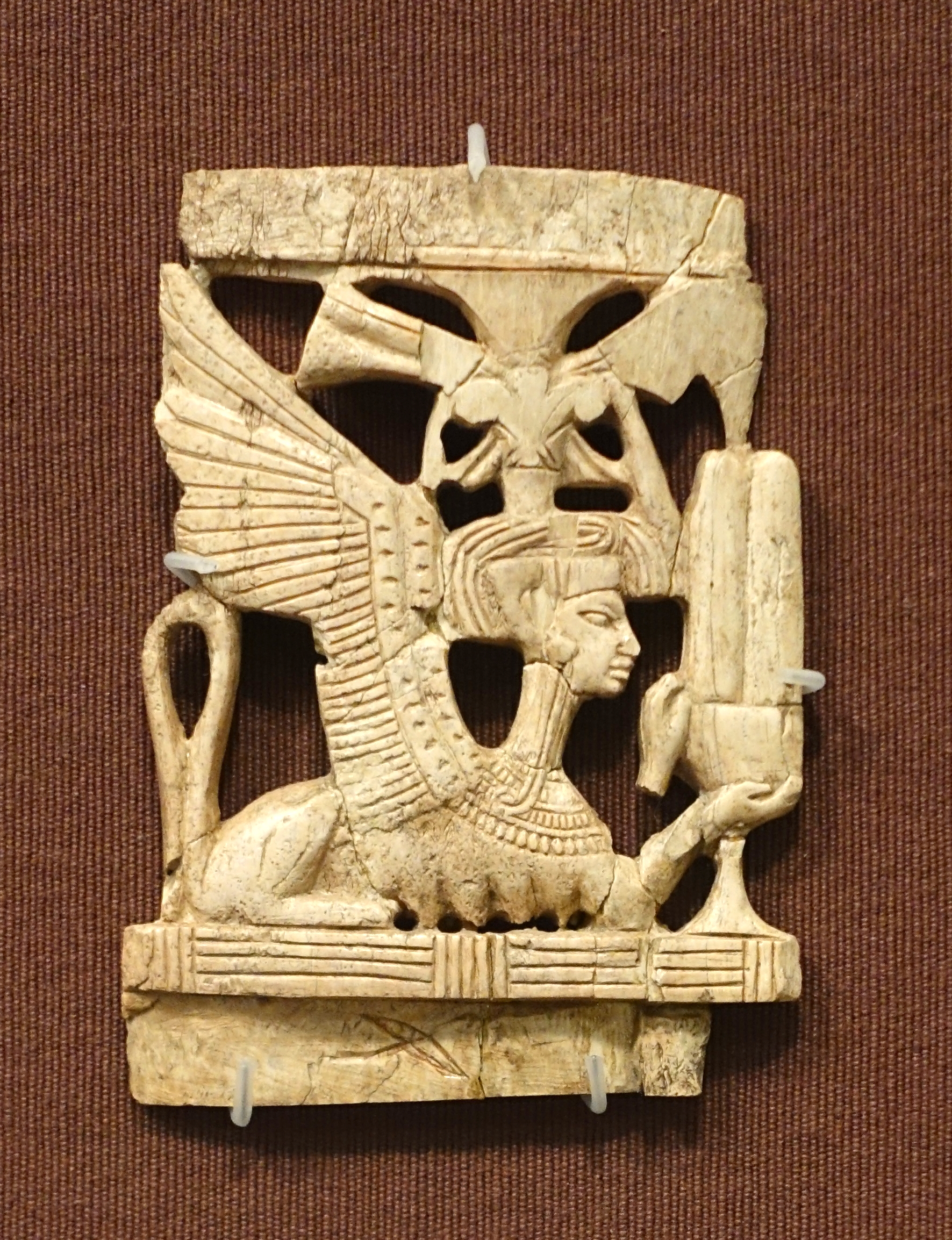 Exhibit in the Oriental Institute Museum, University of Chicago, Chicago, Illinois, USA. This work is old enough so that it is in the public domain.